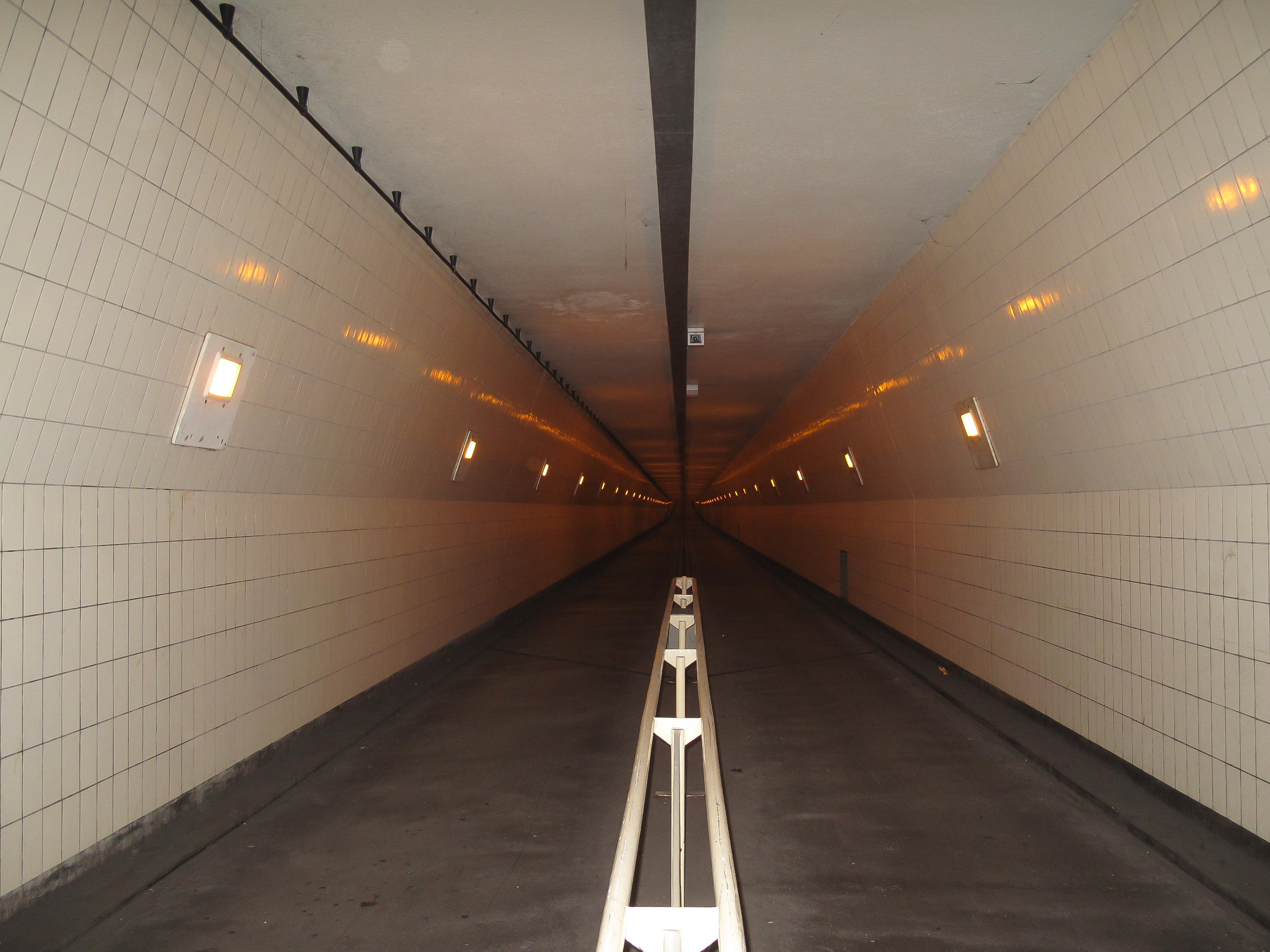 Rotterdam, de Maastunnel (fietstunnel)